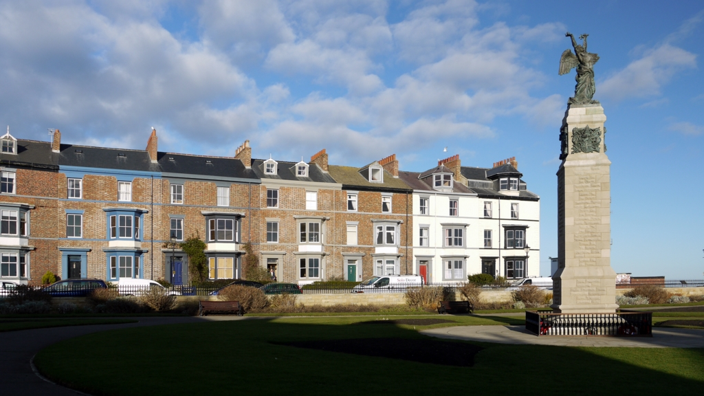 War Memorial, Redheugh Gardens, Hartlepool Headland View towards Cliff Terrace. A small metal plaque at the base of the monument states: "Unveiled on December 17th 1921 by the Right Hon. The Earl of Durham K.G., G.C.V.O., V.D. Designed by Philip B. Bennison A.R.C.A." The Grade II listing provides the following description of the WW1 Memorial: "Limestone, ashlar and rockfaced. Raked, stepped plinth to square, coursed, rockfaced pedestal with ashlar quoins at angles, roll-moulding at base and chamfered cornice. Square shaft supports a further pedestal, with chamfered plinth and cornice, surmounted by a draped bronze figure of Winged Victory. The four faces of the uppermost pedestal bear sculptured bronze achievements of arms, the seal of Hartlepool and a cartouche dated 1914. The east face of the shaft is inscribed: 'FOR US THEY DIED'; west face: 'LIVE THOU FOR ENGLAND'".